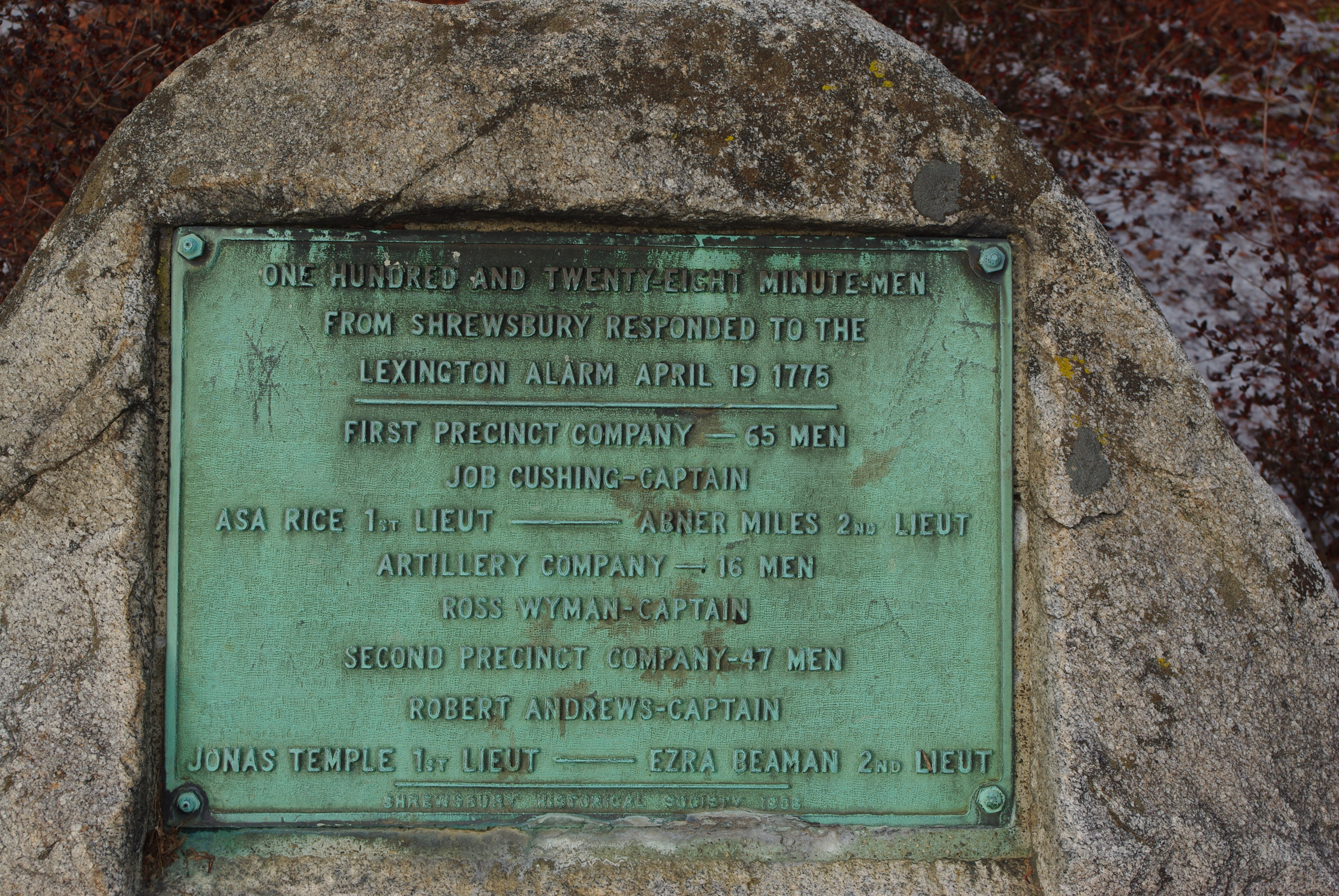 Revolutionary war monument.